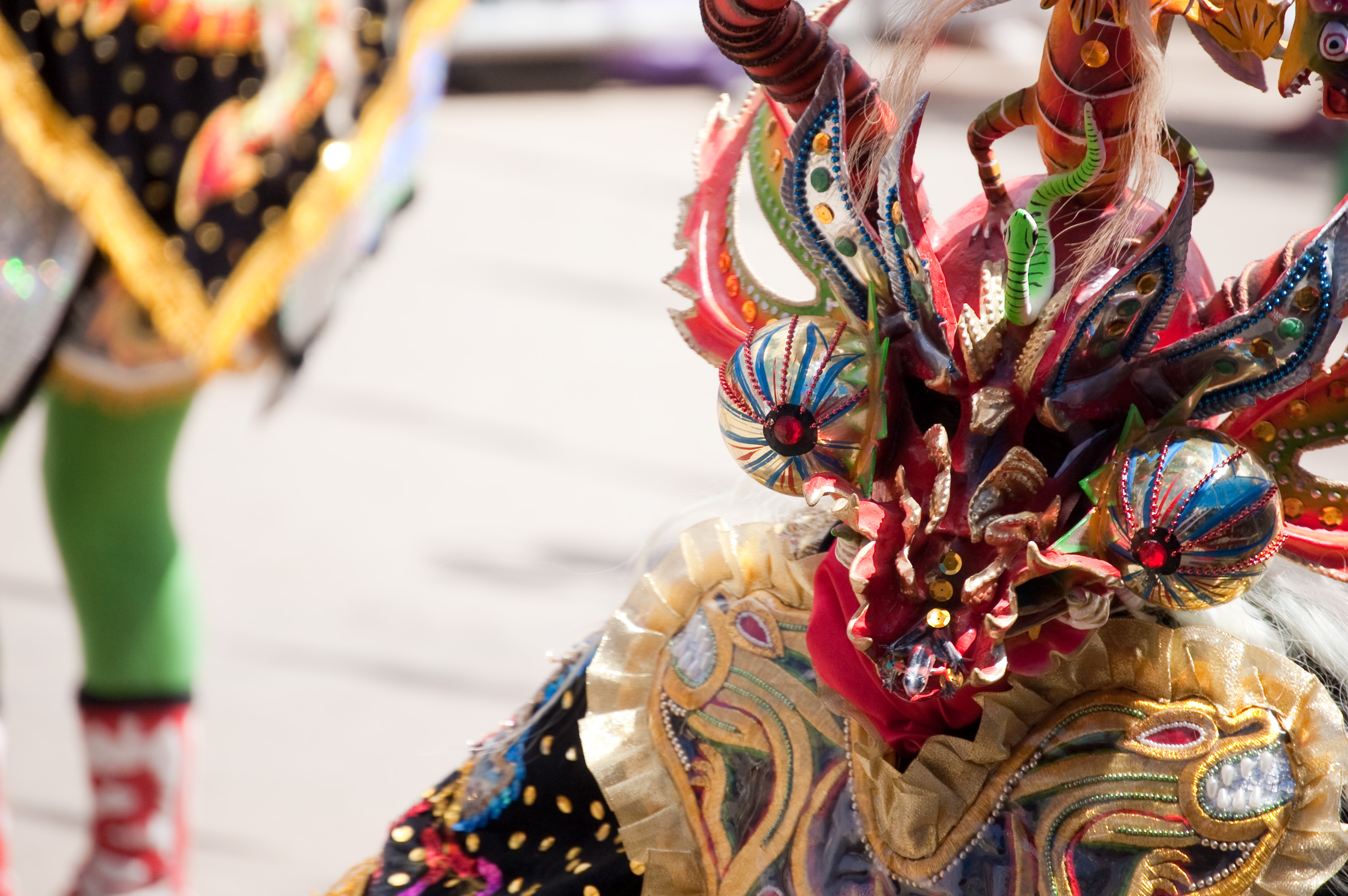 Diablada dancer during the Carnival in Oruro 2009.